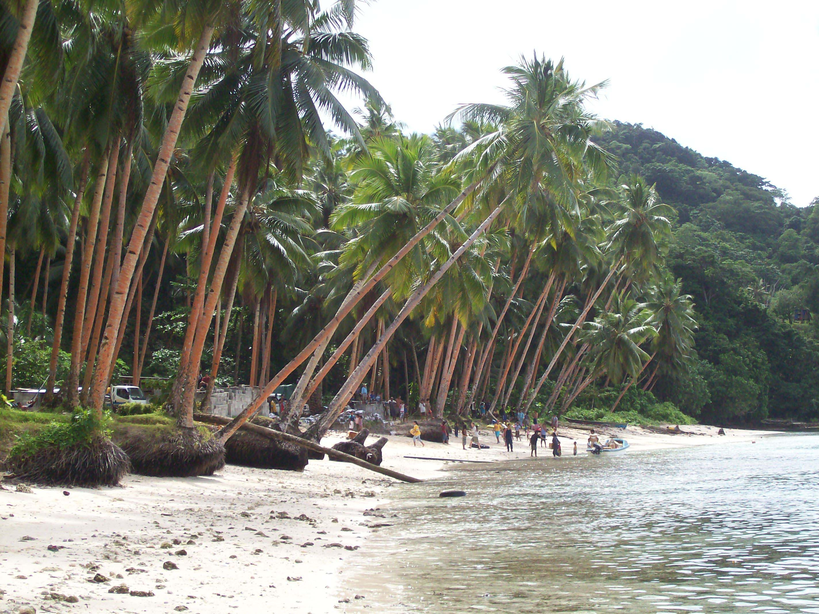 Taken at Lavungu port the day the barge MV Renbel arrived